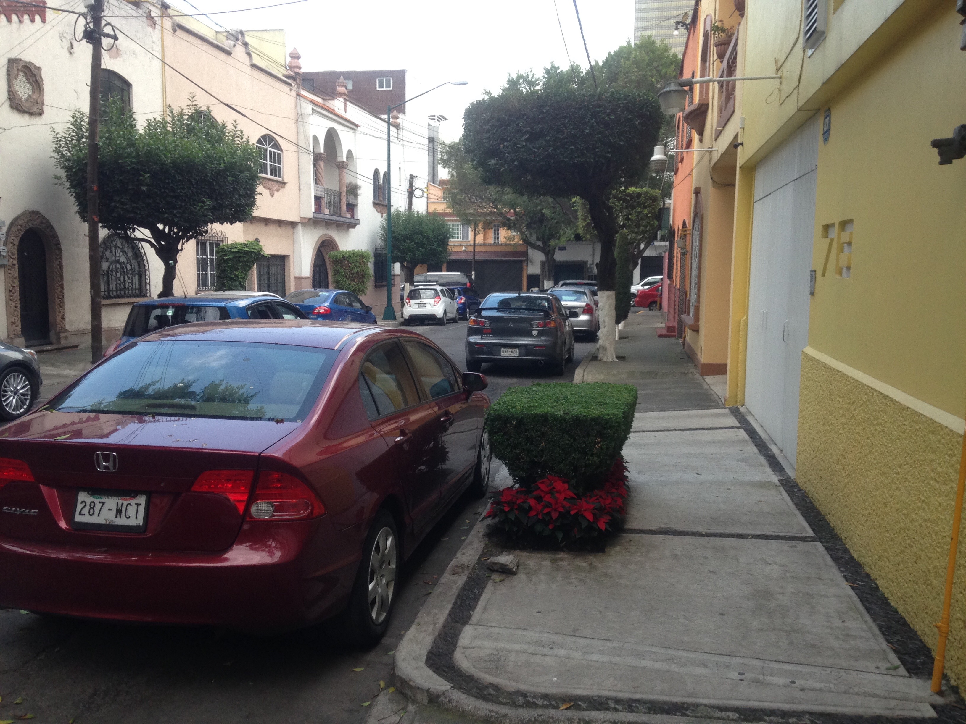 South of Verónica Anzures neighbourhood, Mexico City, 2016